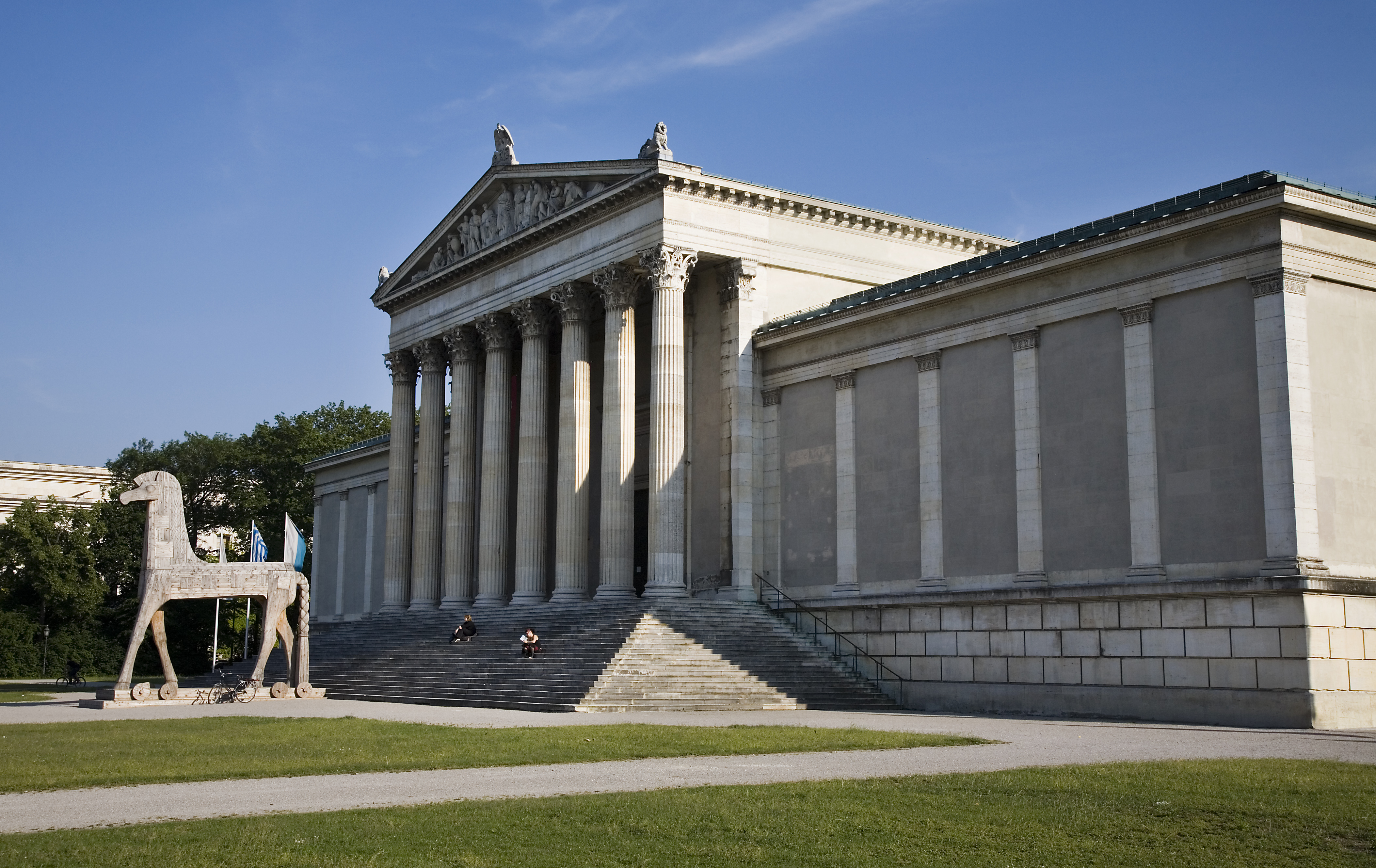 Trojan wooden horse in front of the Staatliche Antikensammlungen at Königsplatz in Munich, Germany